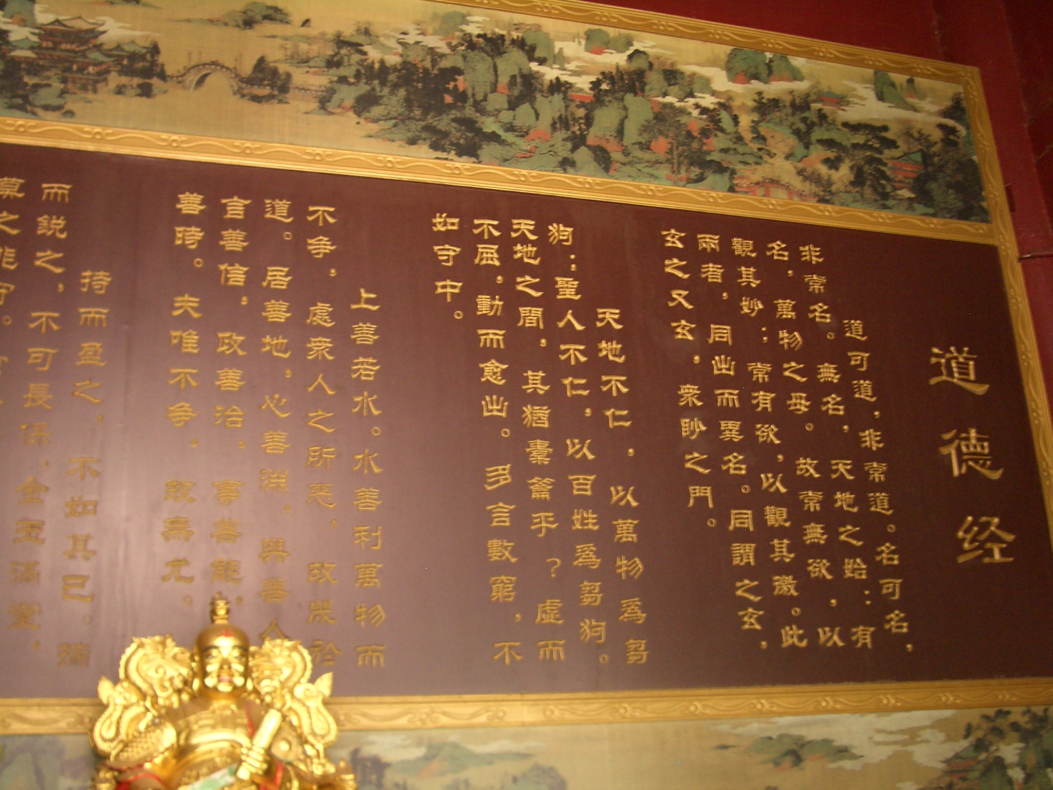 Partial text of Dao De Jing engraved in Tai Qing Dian (Hall of Supreme Purity) in Changchun Temple, Wuhan.